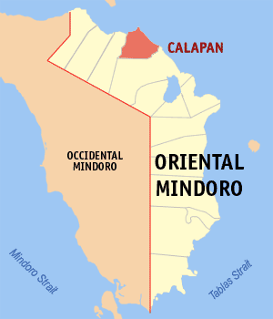 Map of Oriental Mindoro showing the location of Calapan